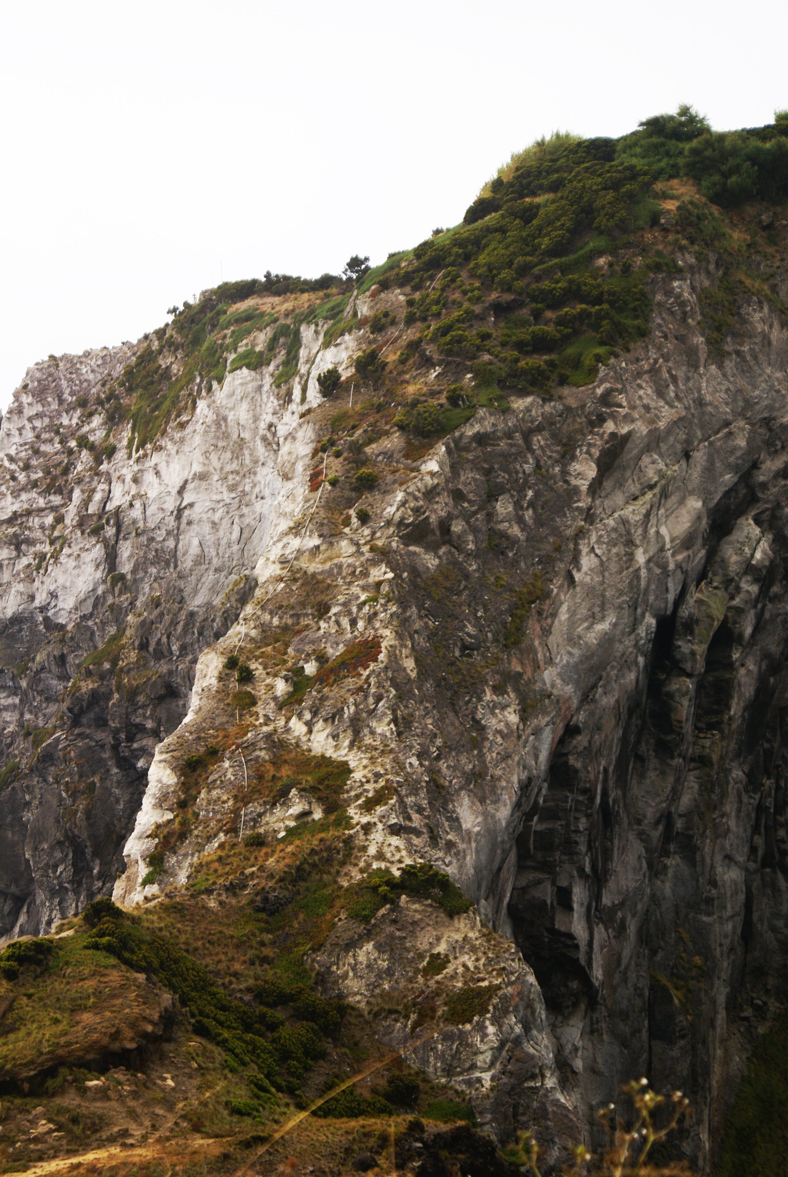 Morro de Castelo Branco, acesso, Castelo Branco, concelho da Horta, ilha do Faial, Açores, Portugal